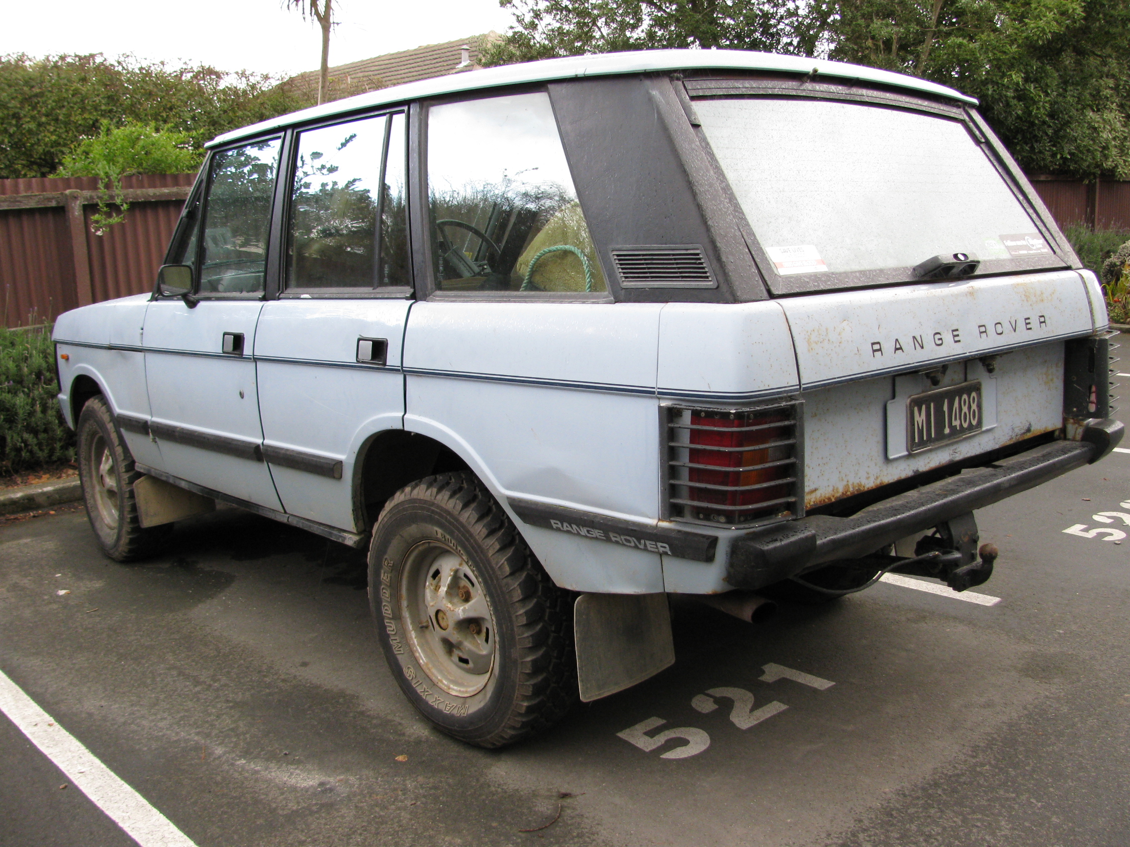 MI1488 Yes, you read correctly. This is a Leyland Range Rover. Is it really a Leyland? I say this because I have never seen a BL badged one before. According to CarJam it was imported from Australia in 1986, which is another oddity as I haven't seen a lot of Aussie imports of any kind. Looks pretty rugged, so it may belong to a university lecturer who lives in the country. Another Canterbury University spot: there really was a lot of old and interesting cars around campus.